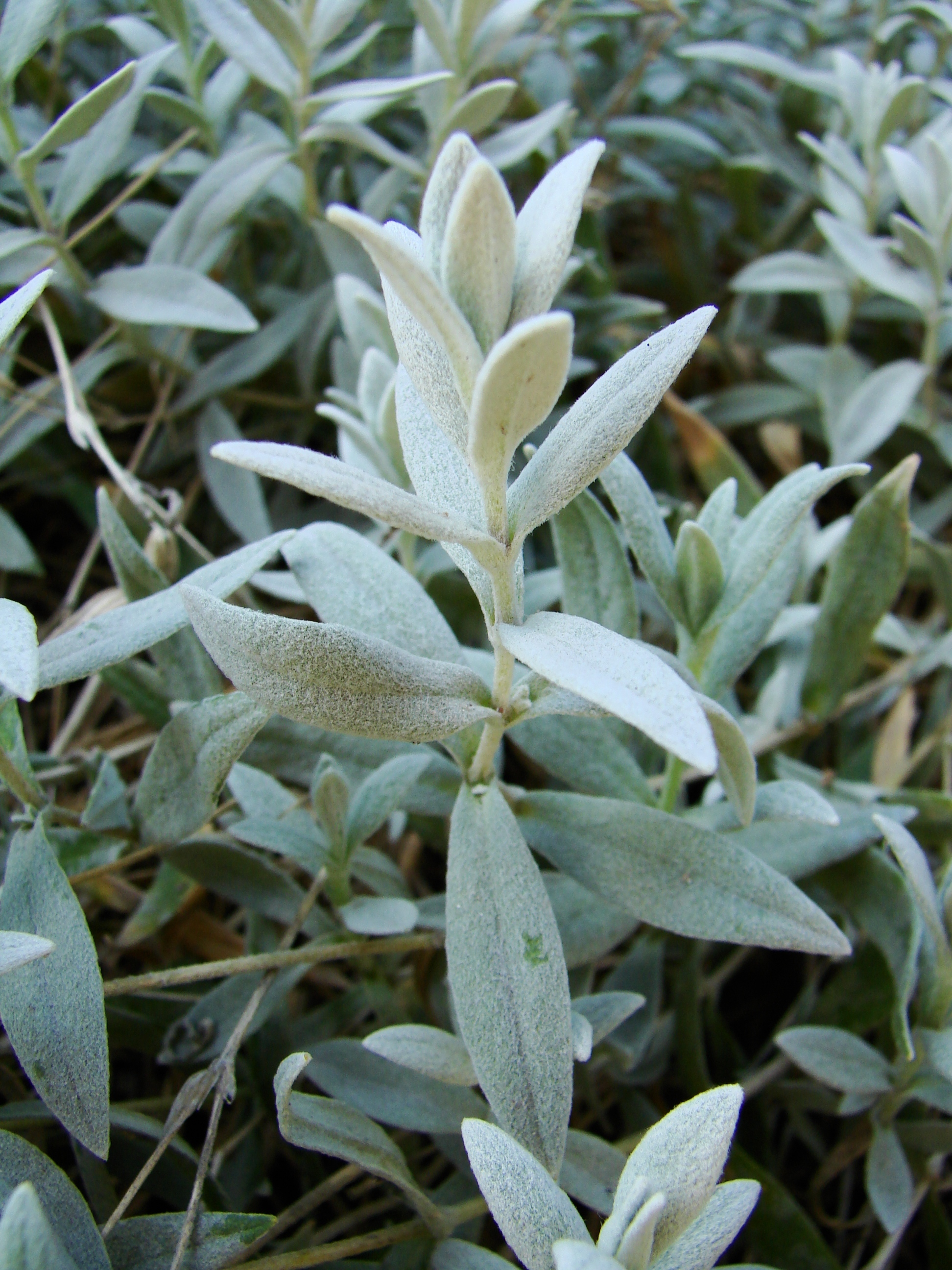 Picture taken in the university botanical garden of Wrocław (Poland): Cerastium tomentosum L.